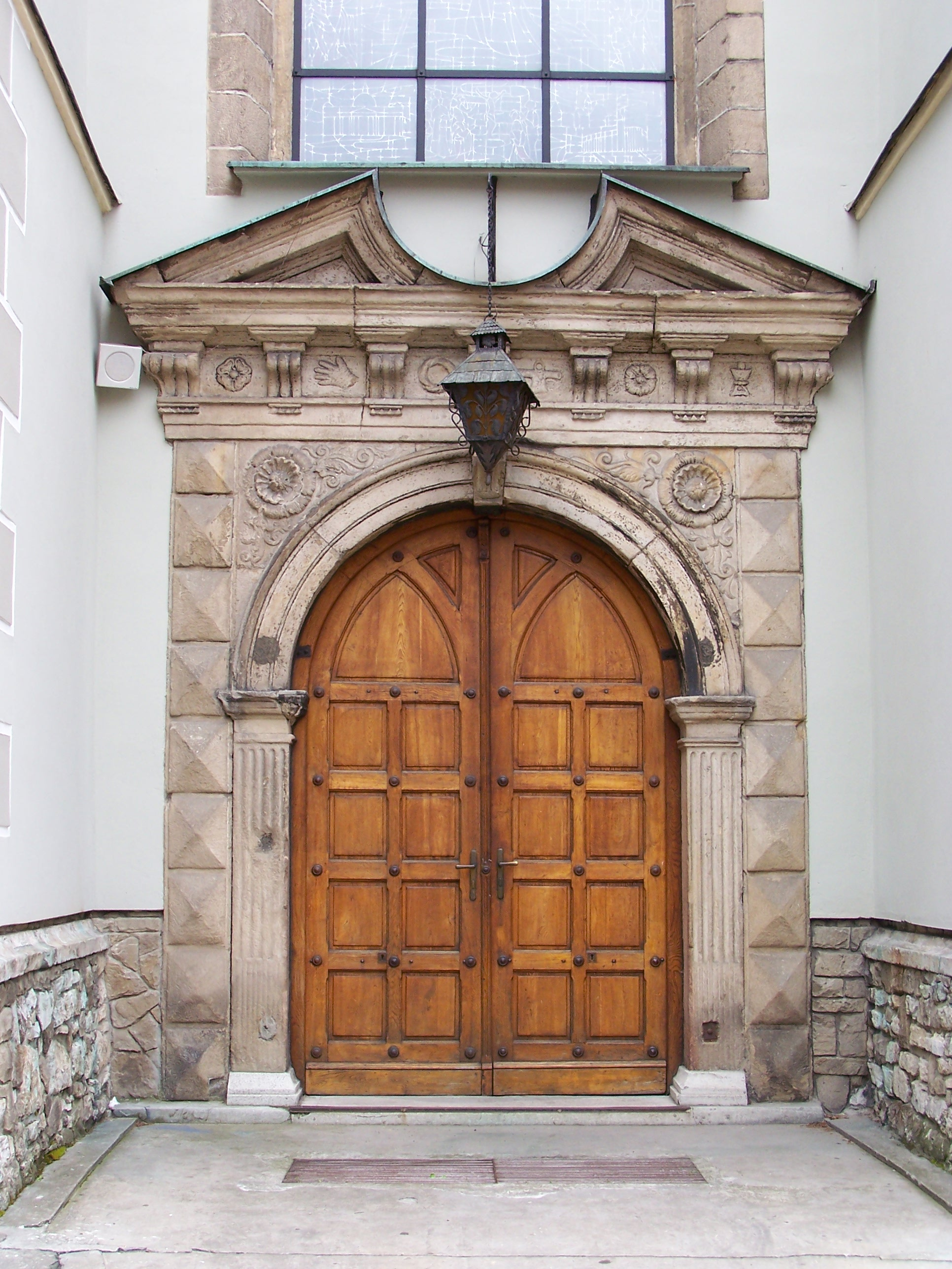 Sideway entrance to church in Żywiec (Poland).